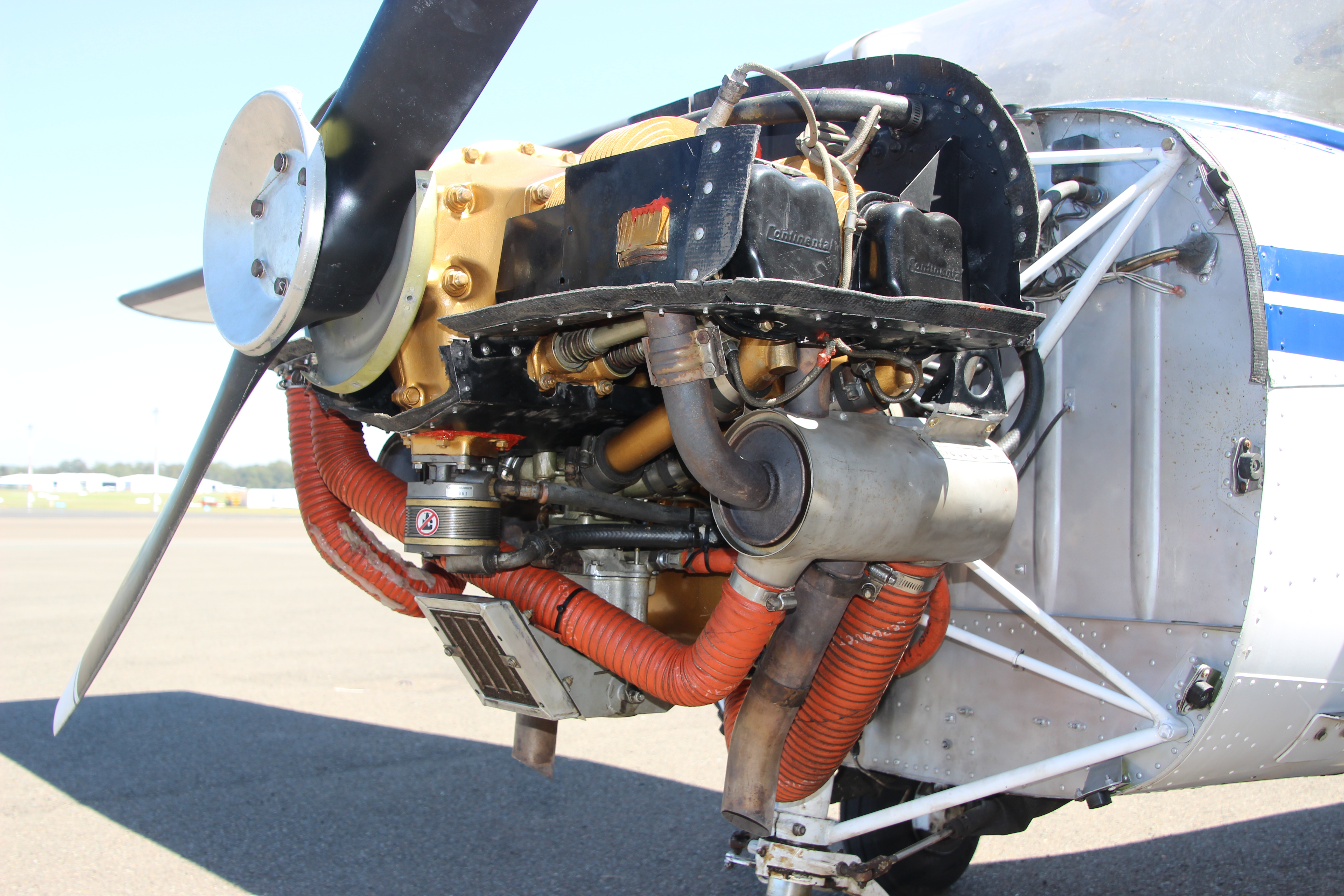 View of a Continental O-200-A horizontally-opposed four-cylinder engine installed in a Cessna 150H. Digital image taken by YSSYguy on 16 October 2015 and uploaded for use in the Continental O-200 article. YSSYguy (talk) 01:04, 18 November 2016 (UTC)